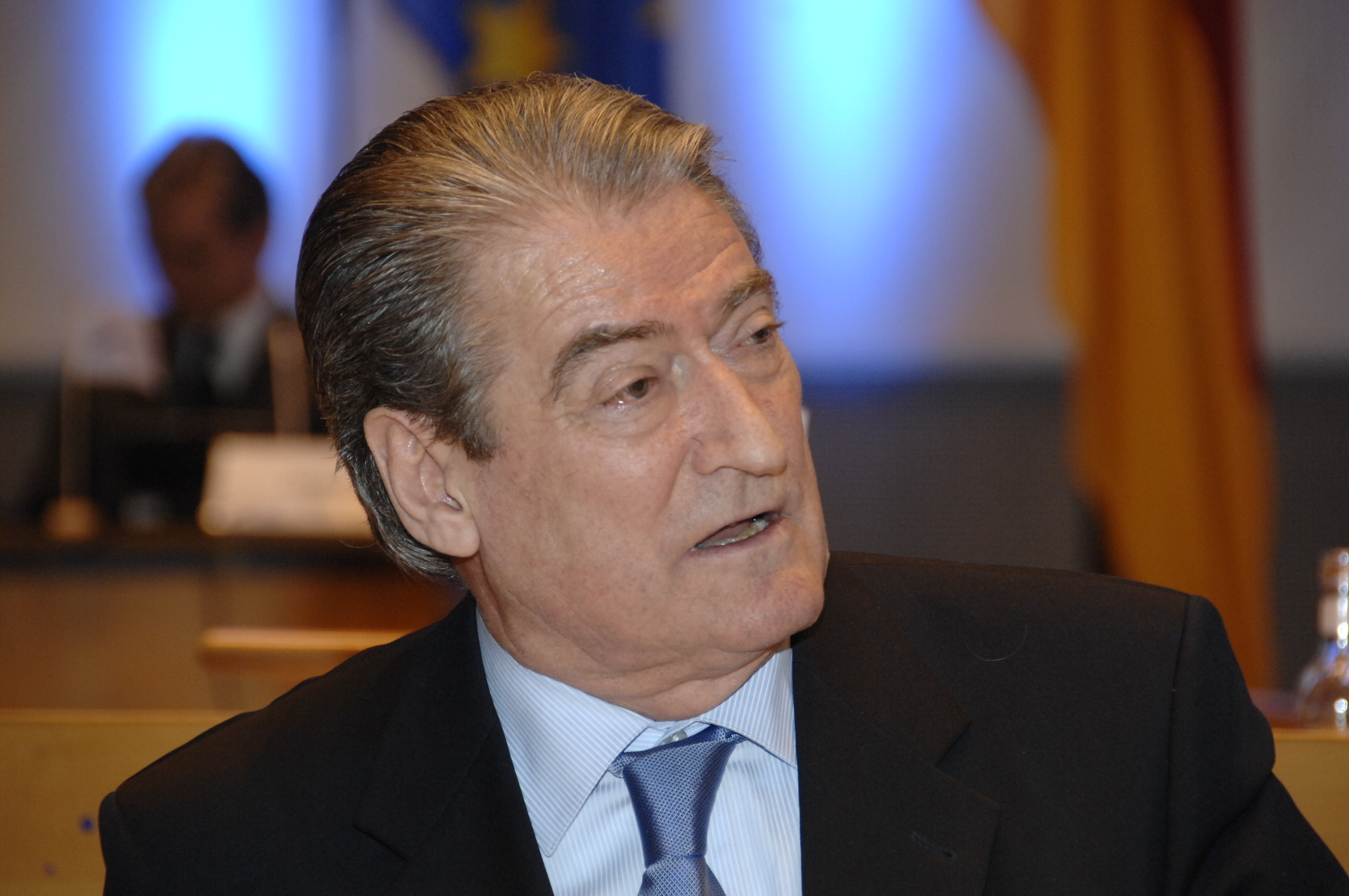 EPP Congress Bonn